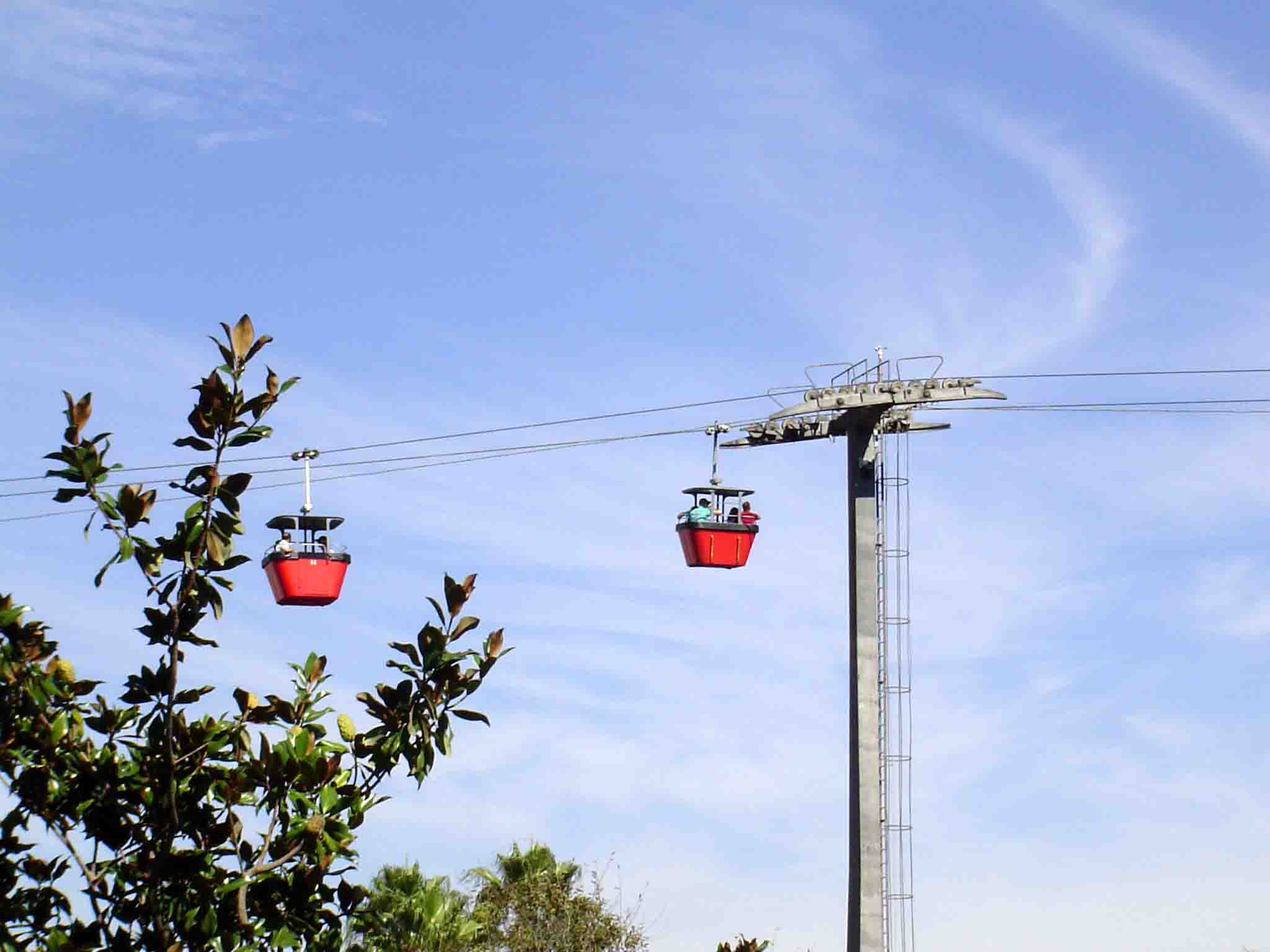 Cableway of Barcelona over Montjuïc, in the foreground Magnolia grandiflora